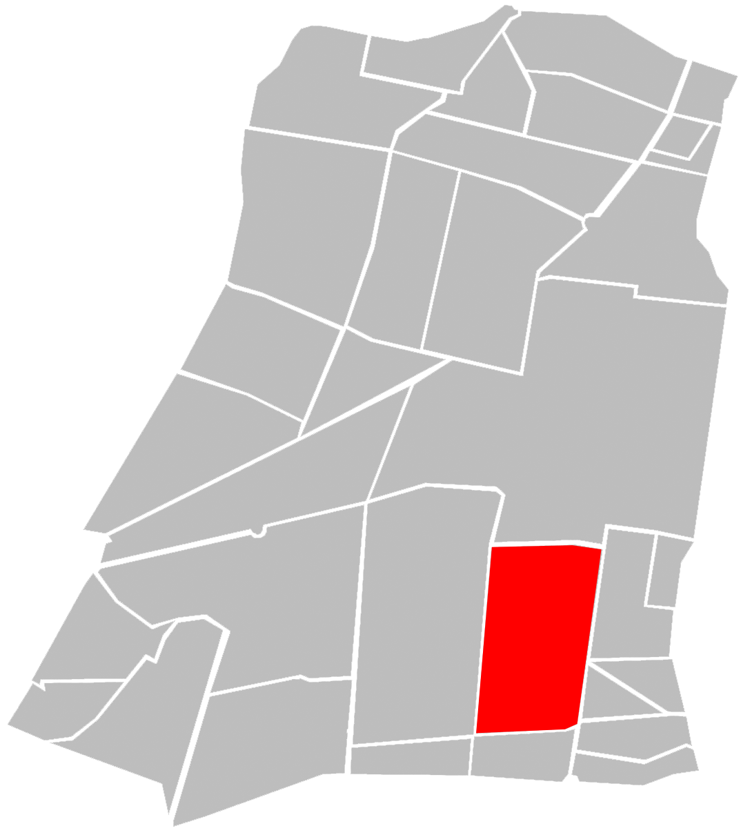 Map of Delegación Cuauhtémoc in Mexico City, with Colonia Obrera highlighted in red